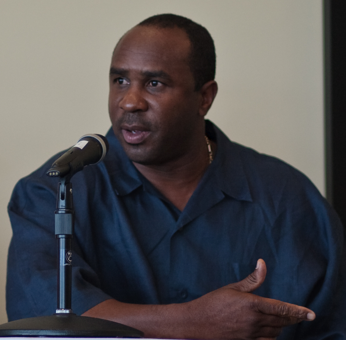 Washington Nationals outfield coordinator Devon White, 2009